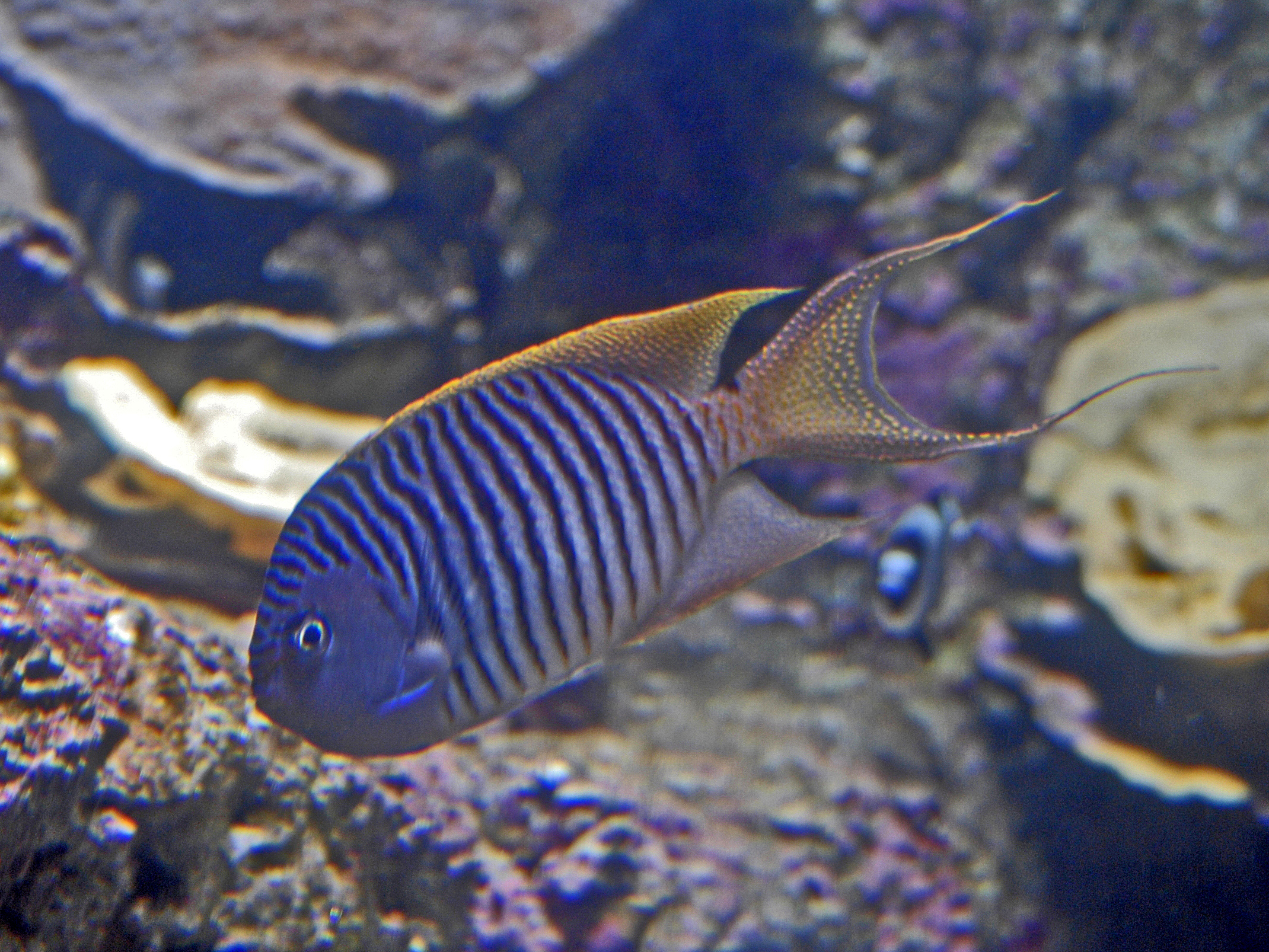 Genicanthus melanospilos at the Aquarium de Paris